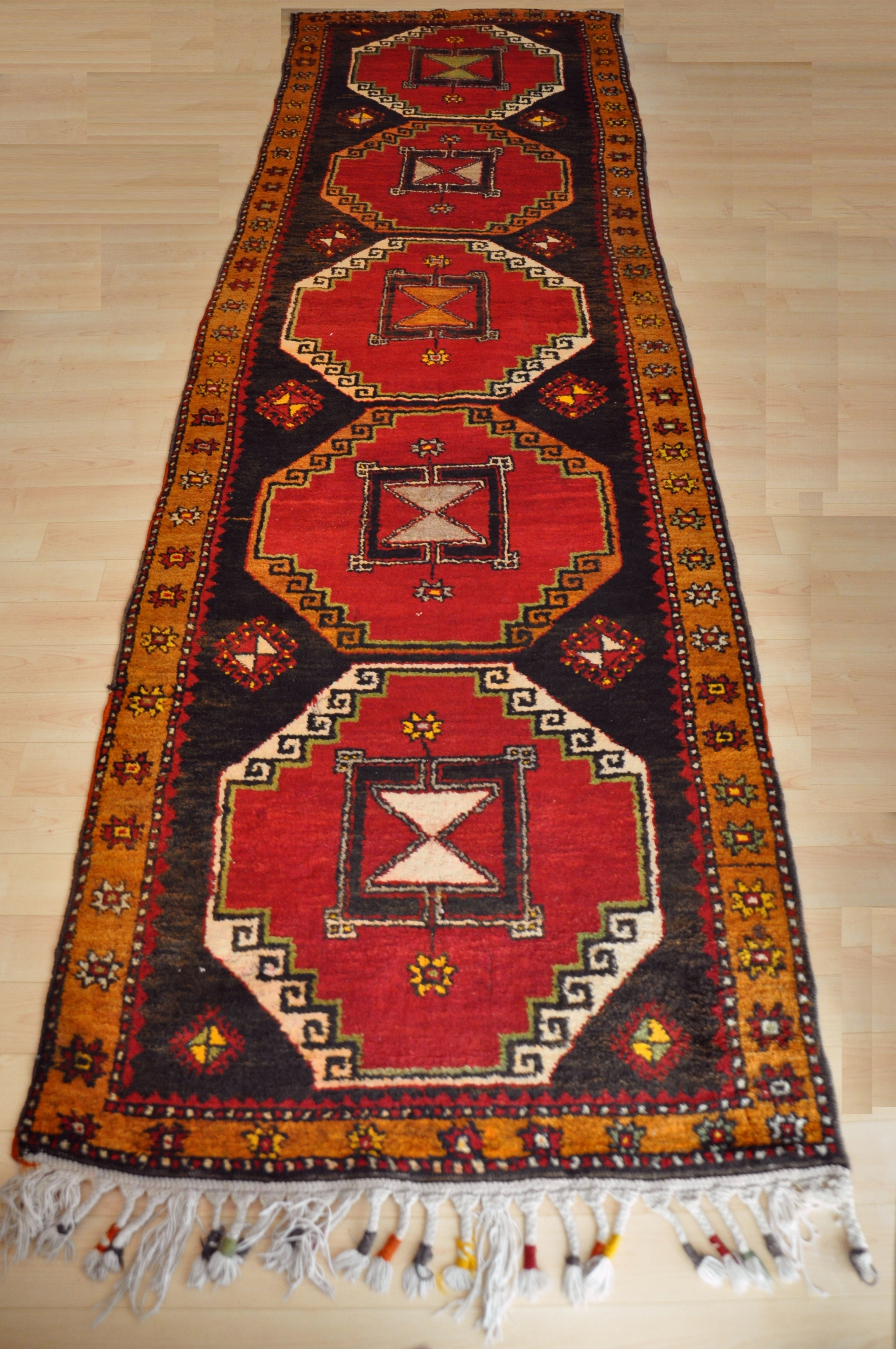 Central Anatolian Primitive Tribal Rug Early 20thC. CL Lane Collection.